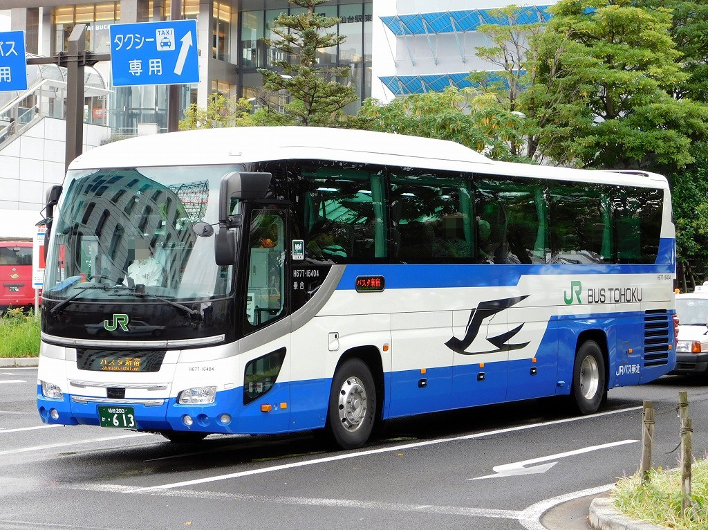 JR bus Tohoku Hino S'elega (QRG-RU1ESBA)highwaybus "Sendai-Shinjuku"